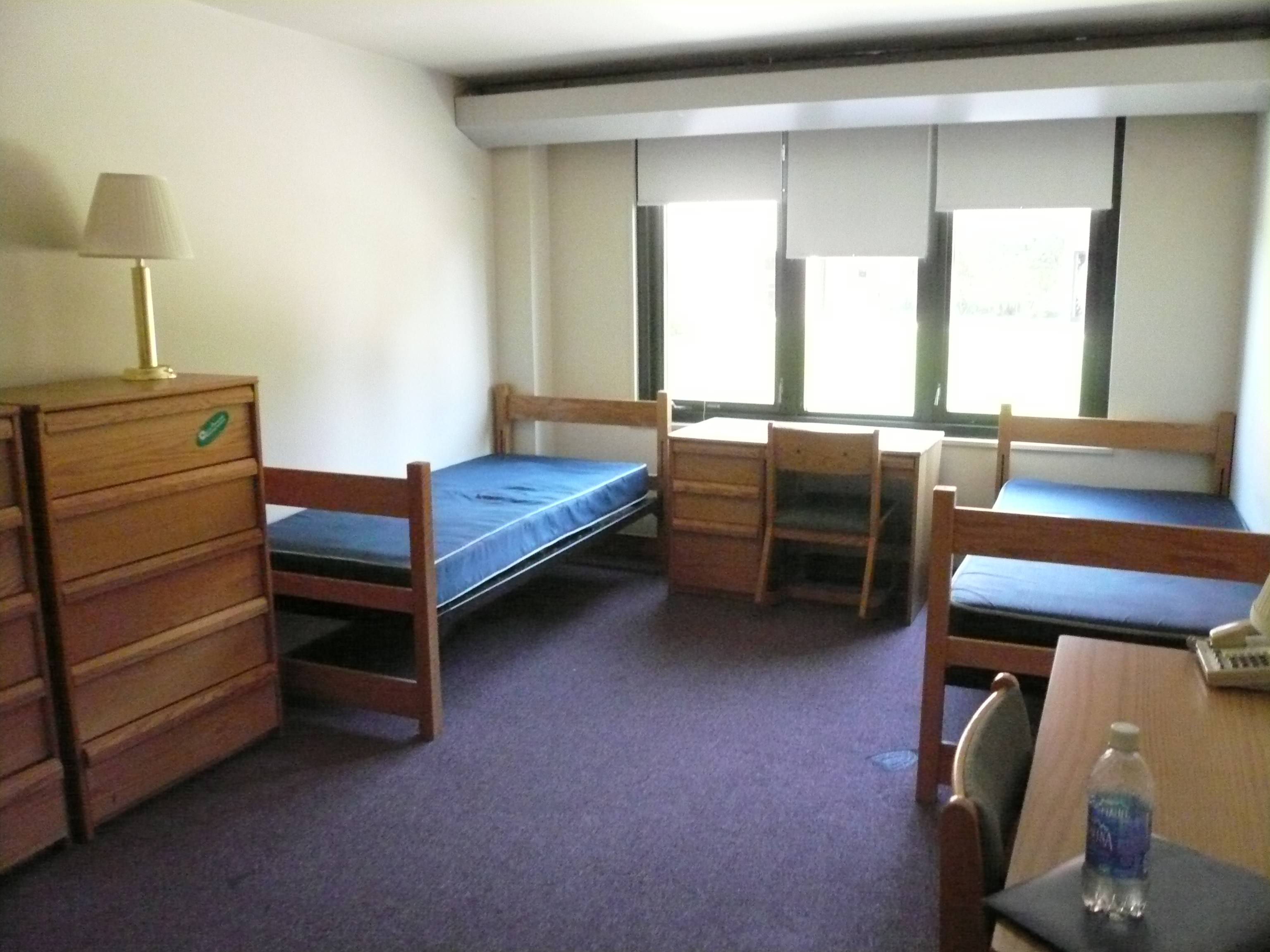 A bedroom at Loyola College in Maryland, USA. Other amenities in the dorm included a kitchenette, entrance area, and a small gathering room with table and chairs.